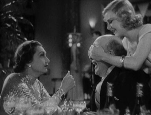 Frame from public domain trailer for 1933 Warner Bros. film Gold Diggers of 1933 showing Aline MacMahon, Guy Kibbee and Ginger Rogers.